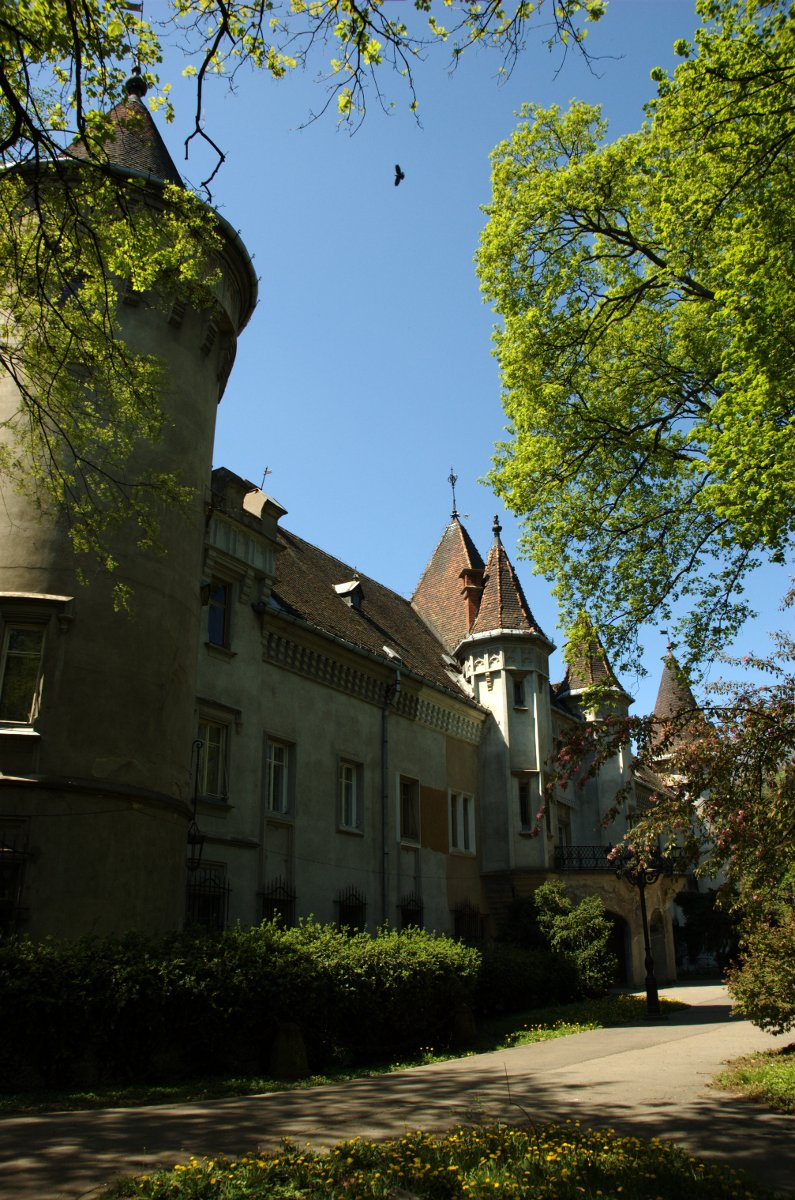 a view of the Karolyi castle in Carei, Romania